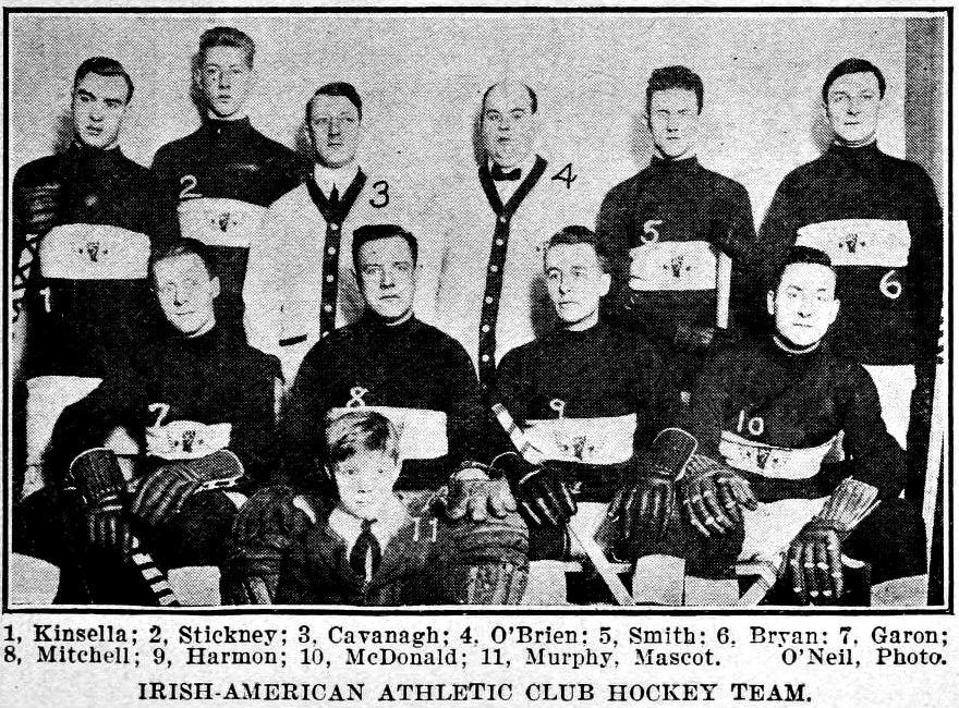 Ice hockey club of the Irish American Athletic Club in 1912–13.